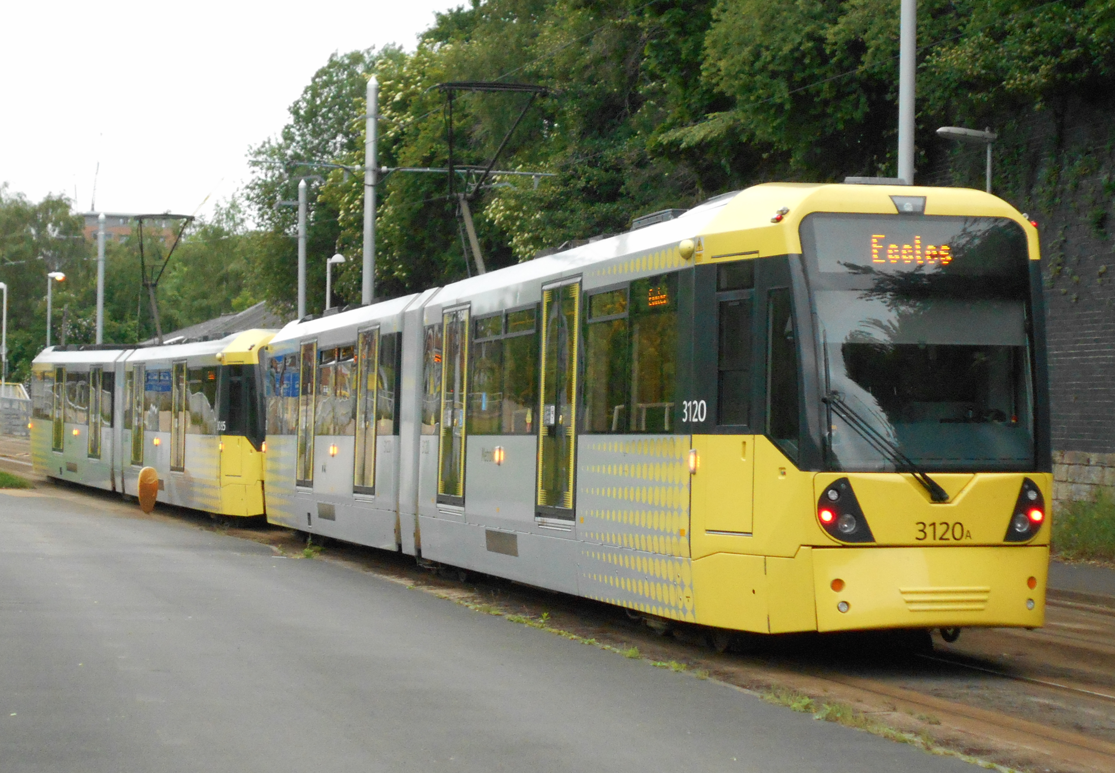 A pair of coupled M5000 trams approaching Holt Town tram stop on the East Manchester Line.